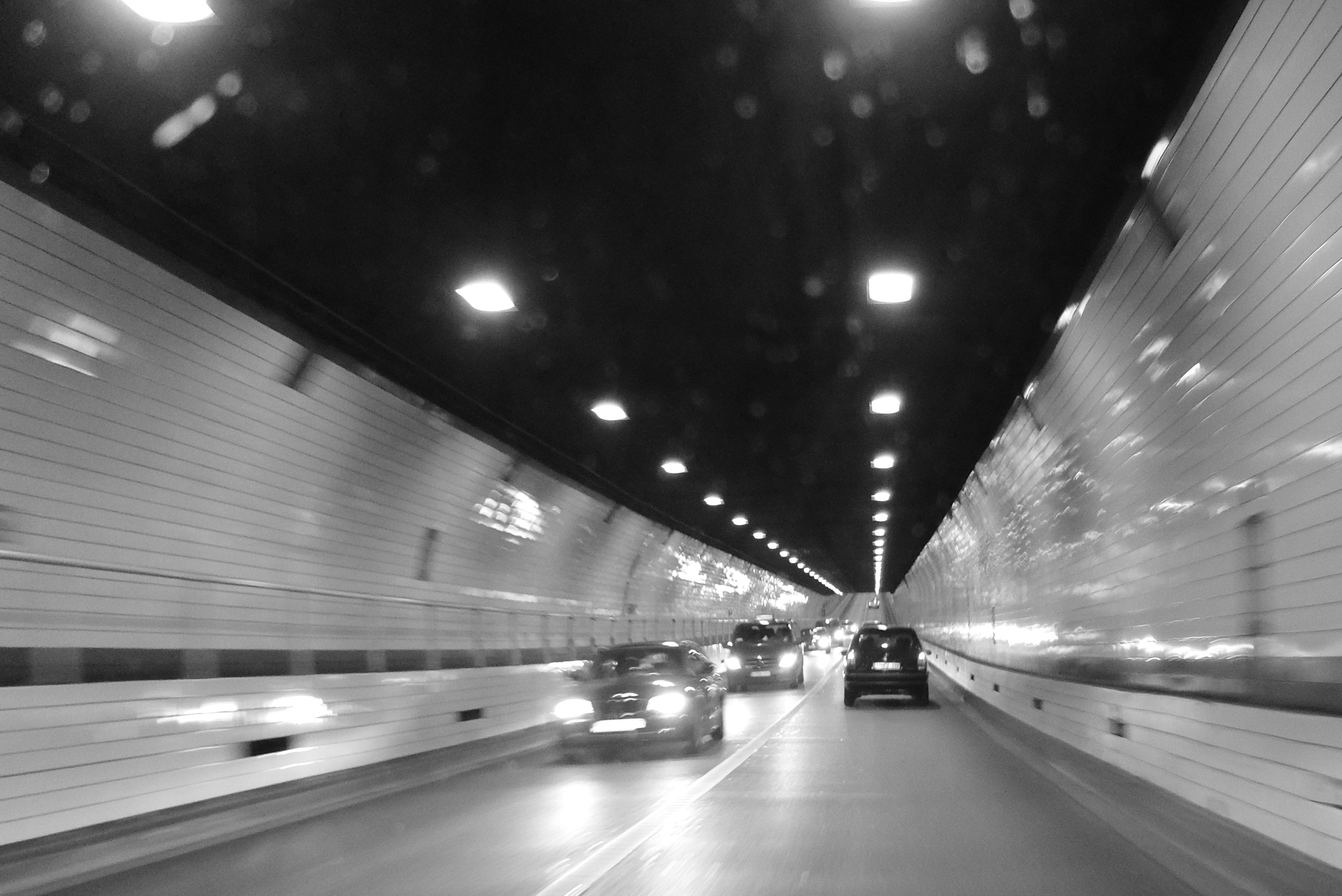 Waaslandtunnel in Antwerp